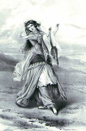 Almeh du Caire - 19th century egyptian dancer.